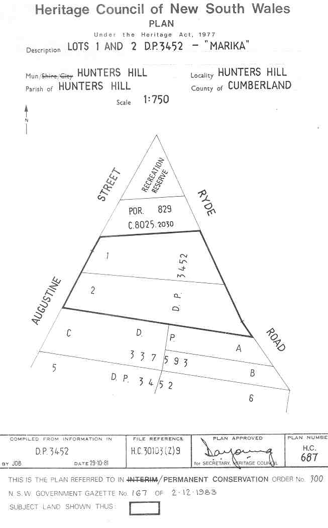 Marika, Hunters Hill: PCO Plan Number 300